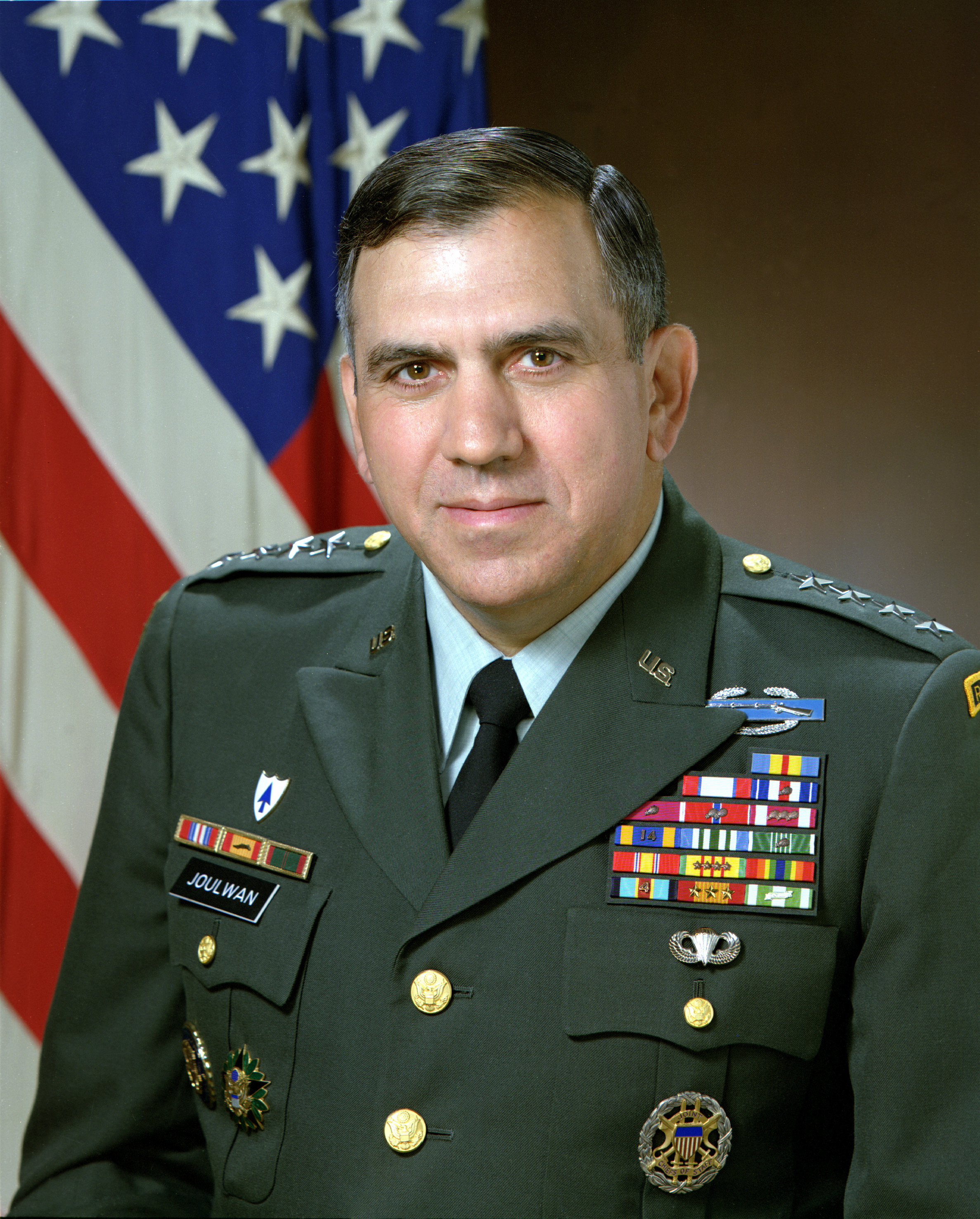 George Joulwan, U.S. military general.